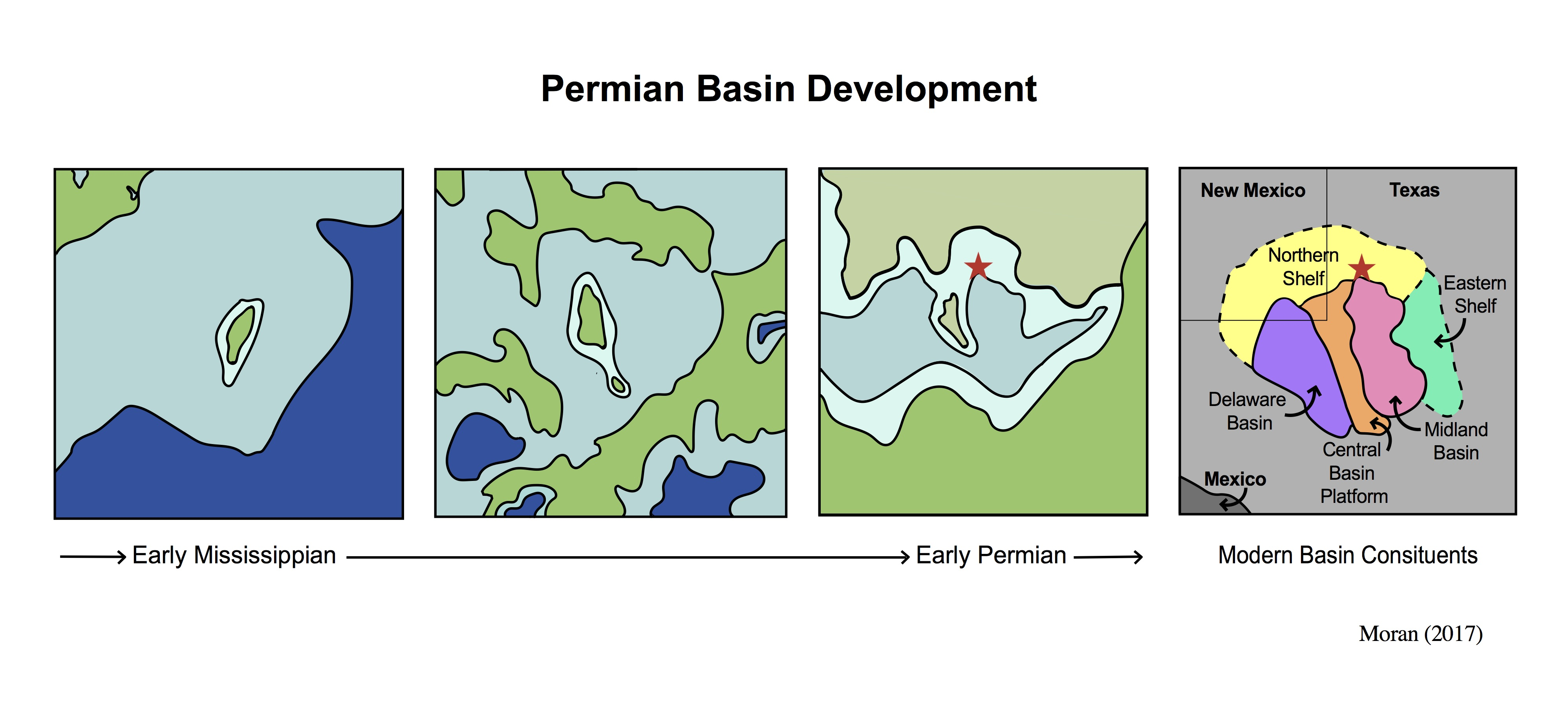 Model of stages of development for the Permian Basin as well as its modern constituents.